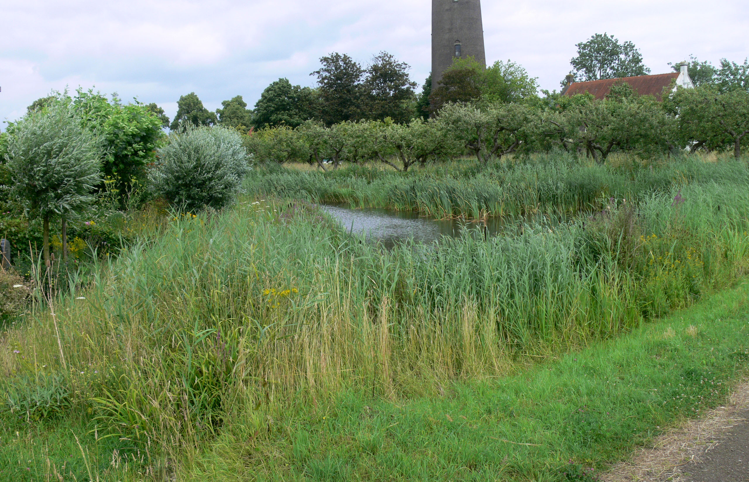 Example of house in E.V.A. Lanxmeer district (a "green distric" named Lanxmeer, built at Culemborg, The Netherlands), wich is a recent (1994-2009) district (semi-public eco-building) of approximately 250 ecological houses, several offices and a urban farm. The project is based on "Sustainable Implant" with a spatial combinaison of natural systems, technical approach of integrated waste (wastewater) / energy system and écological and social purposes, for an urban neighborhood. The district is in an ecologically sensitive area (former drinking waterextraction and retention area). The conception of this district is based on permaculture, and organic design, a small biogas installation (able to treate black water and organic waste and garden & park waste), a combined Heat Power. Some houses are in closed greenhouse. A semi-public building (the ‘EVA Centre) should yet be made, based on the Living Machine concept.